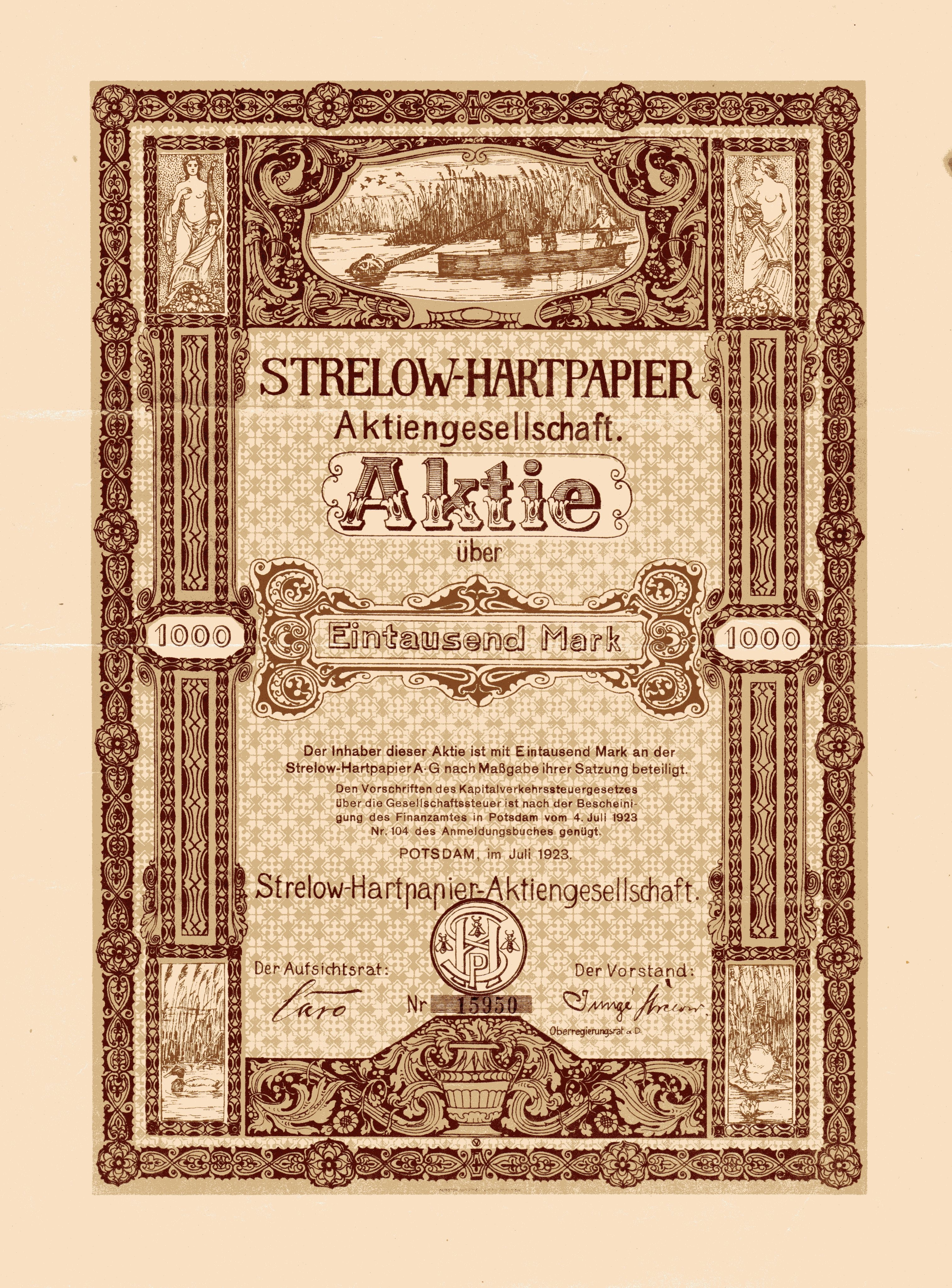 Share of the Strelow-Hartpapier AG, issued July 1923